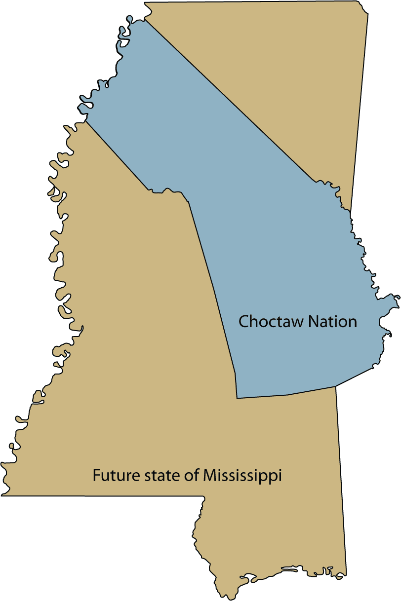 The Choctaw Nation in 1830 in relation to the future U.S. state of Mississippi.